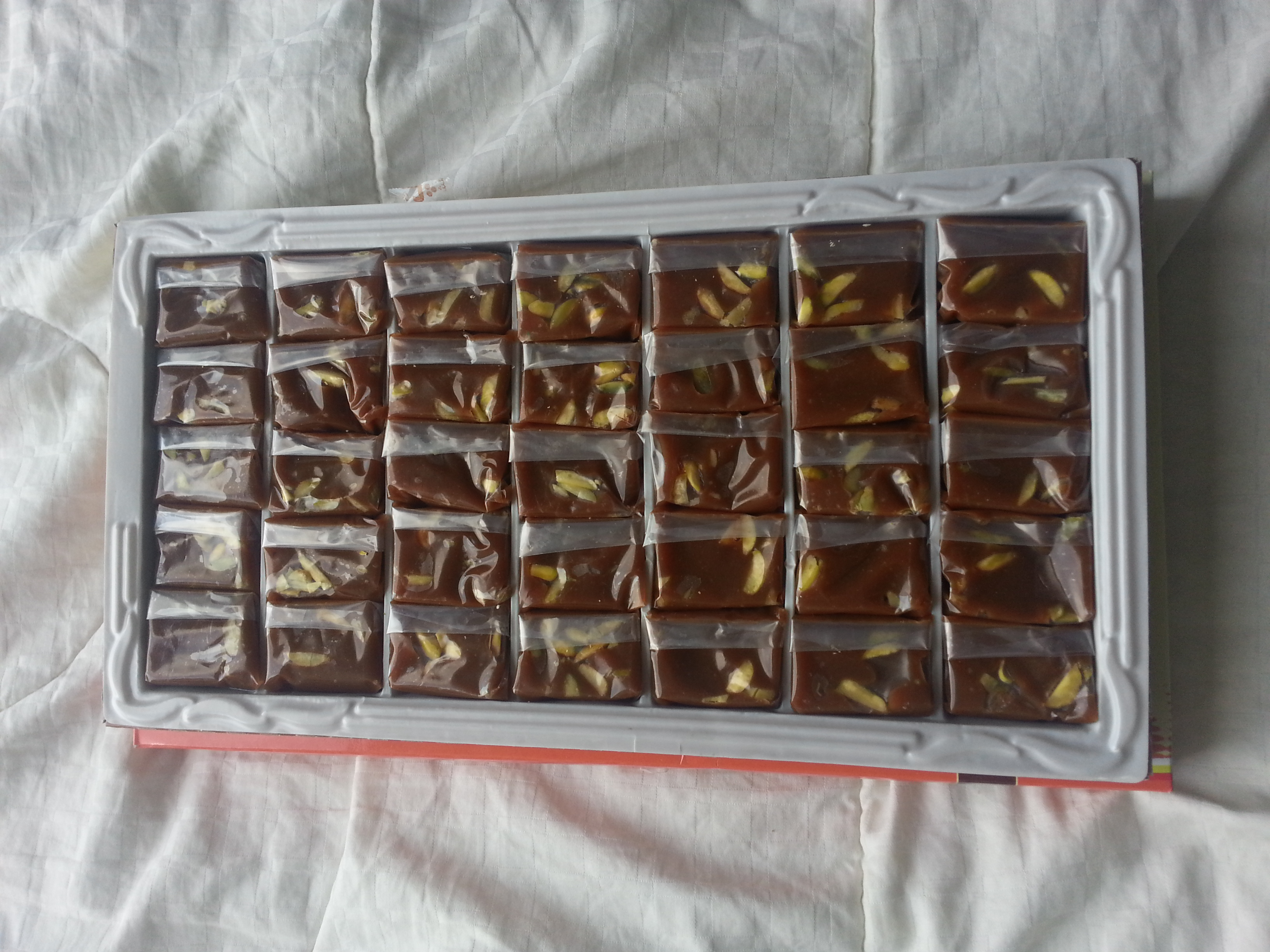 Riss is cookie from city of Tabriz, Iran